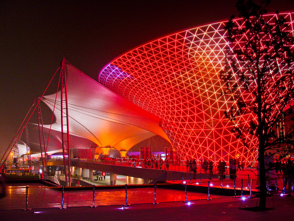 Expo 2010 Expo Axis near the main entrance.